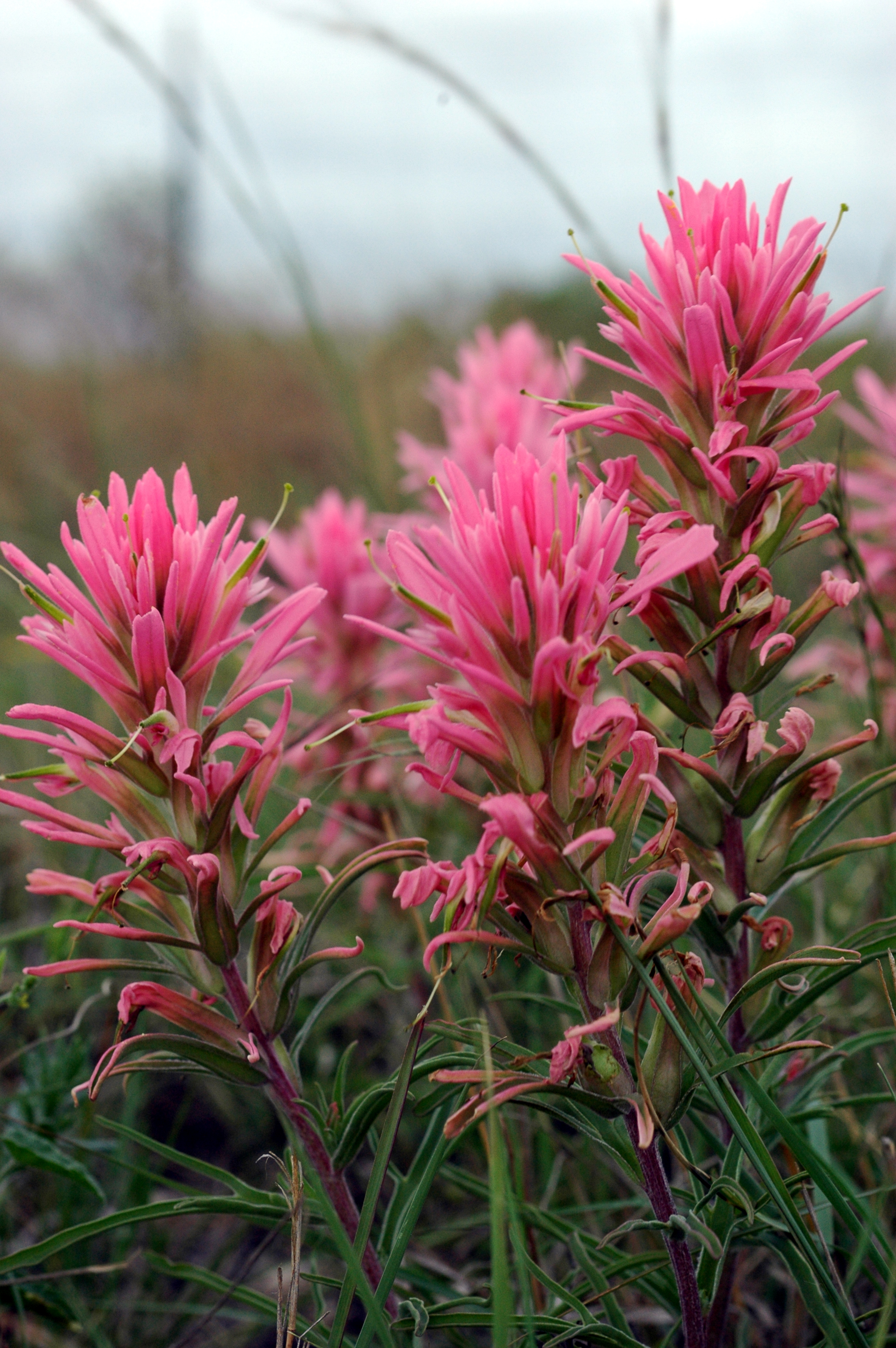 Downy Paintbrush, Castilleja purpurea. Just North of the Alamo Village entrance, Kinney County, Texas. [note: Originially misidentified as Castilleja sessiliflora